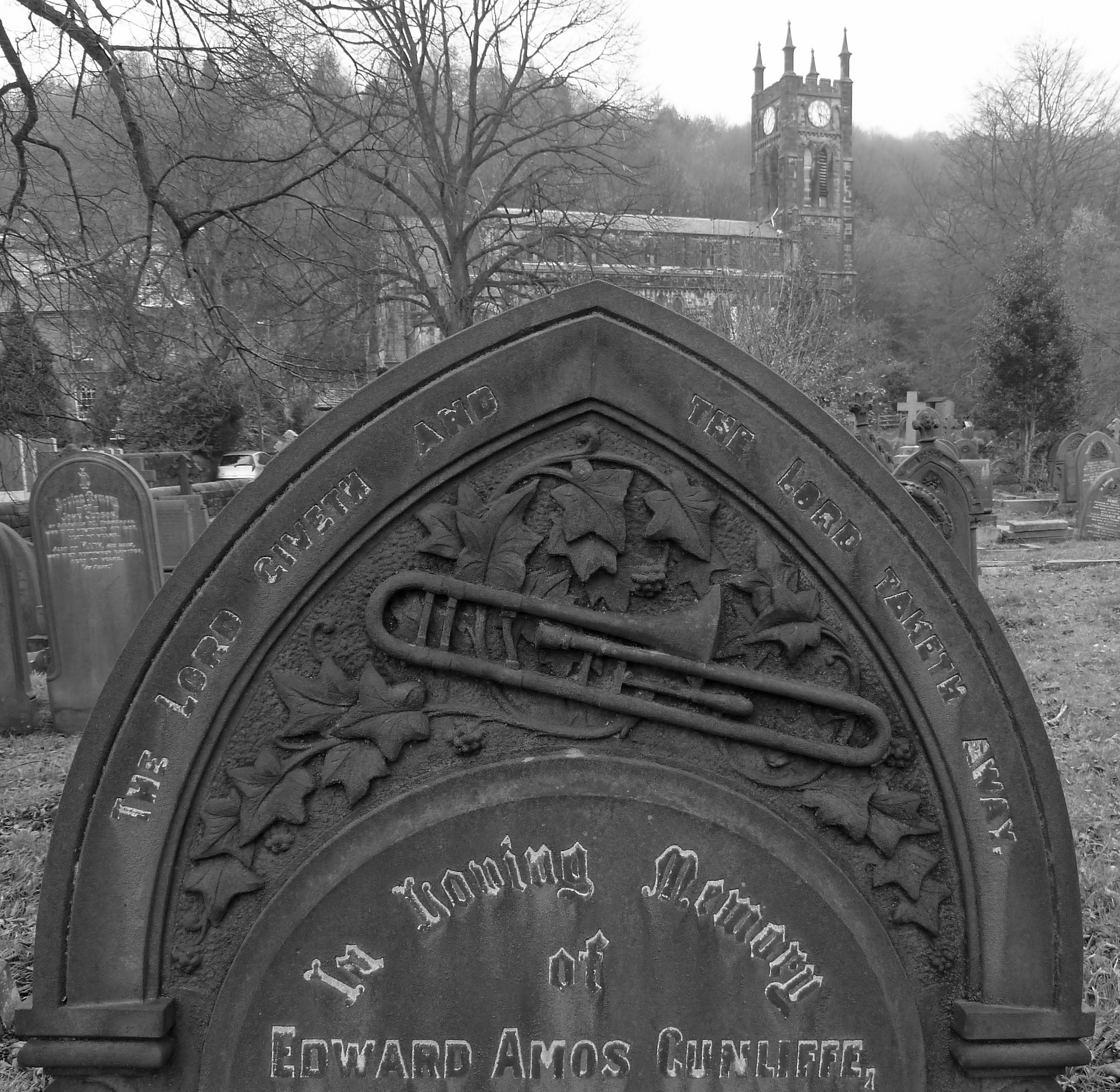 Grave of Edward Amos Cunliffe, Christ Church, Todmorden